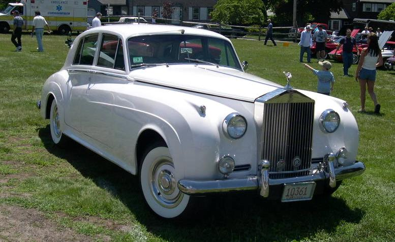 Rolls-Royce Silver Cloud Source: Photographed at the Bay State Antique Automobile Club's July 10, 2005 show at the Endicott Estate in Dedham, MA by User:Sfoskett